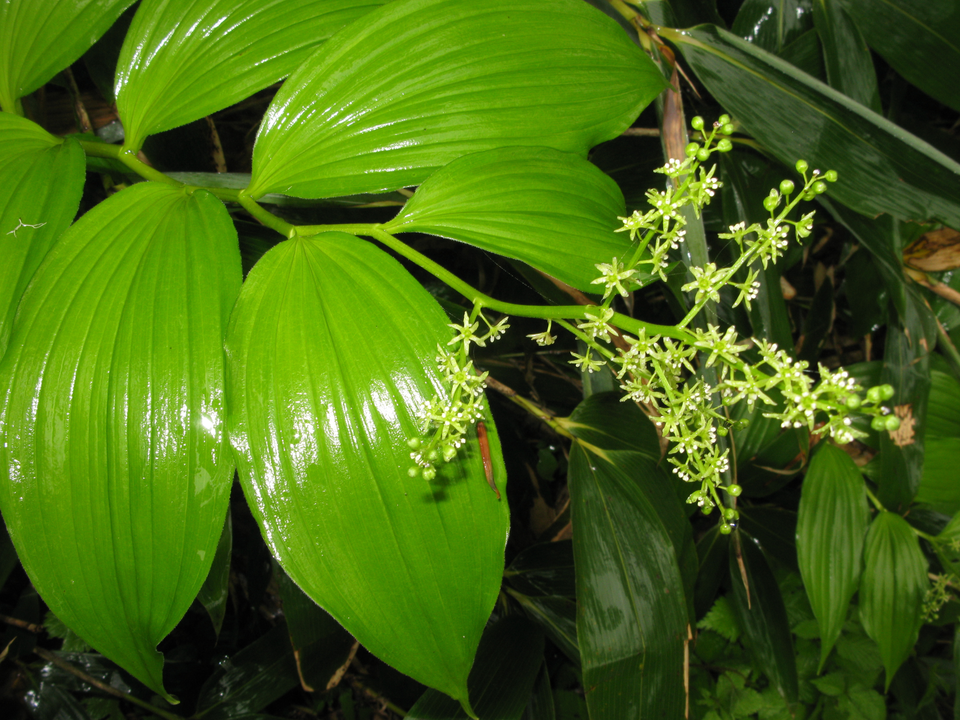 Maianthemum yesoense, Mount Hiuchi, Fukushima pref., Japan